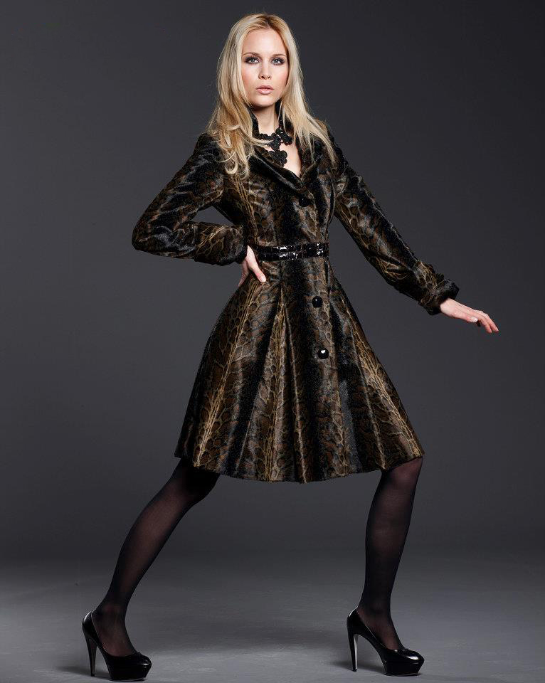 Fashion photograph